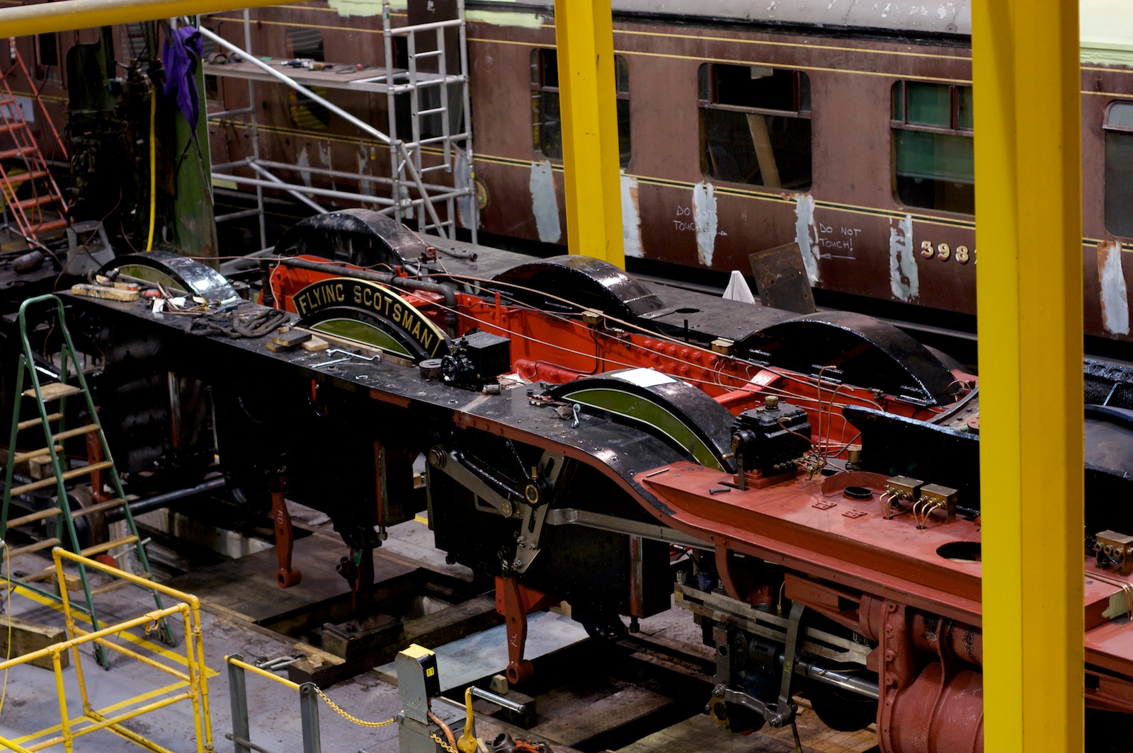 Flying Scotsman